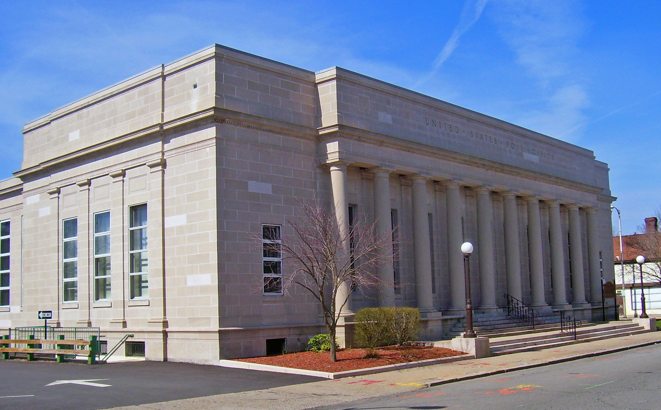 Former post office building in Attleboro, MA, USA. Now used by county and city for various departments